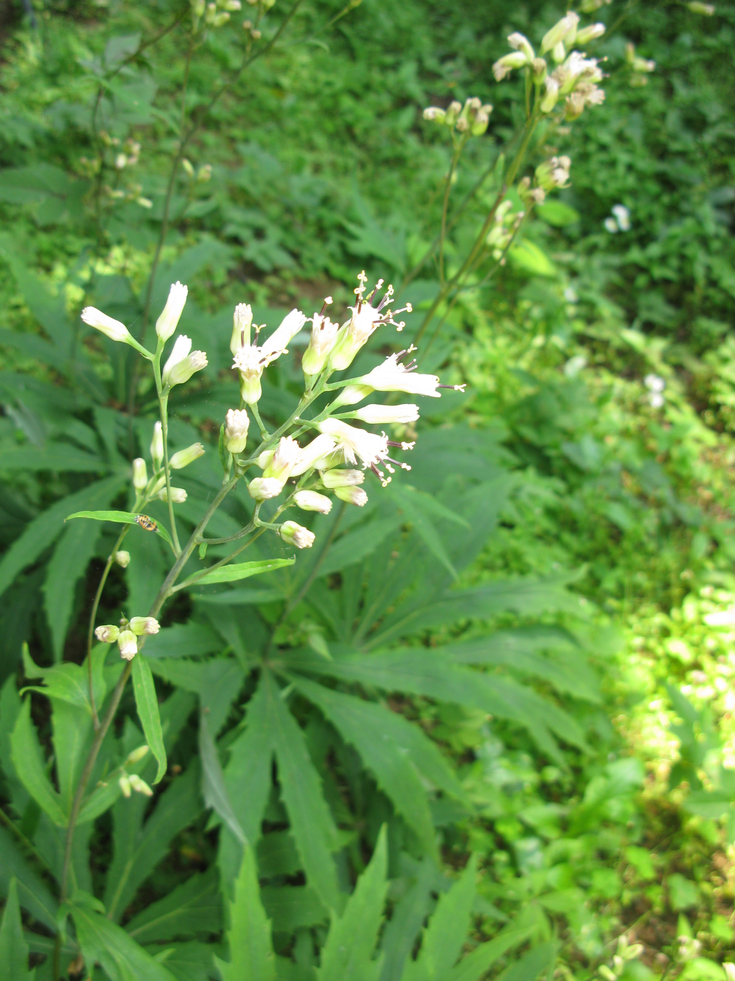 Syneilesis palmata, Koishikawa, Botanical Gardens, the University of Tokyo, Japan